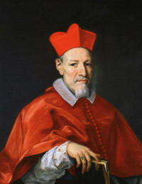 Portrait of Cardinal Marzio Ginetti (1585-1671)